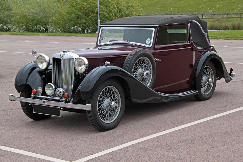 MG VA Tickford DHC. Salmons & Sons Ltd. of Newport Pagnell built this Tickford folding head coupe on the MG VA chassis with 1548cc ohv 4-cylinder engine.